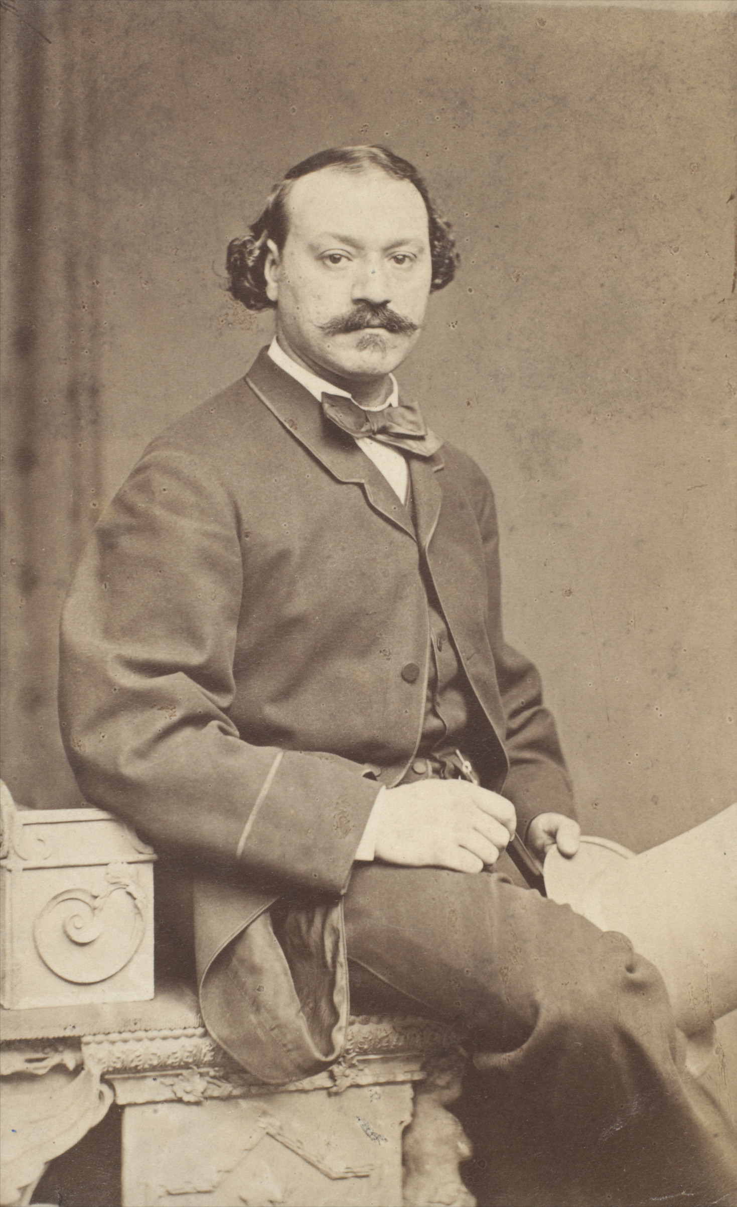 Circa 1860 photograph of Signor Francesco Graziani, Italian baritone in London, where he was a favorite.